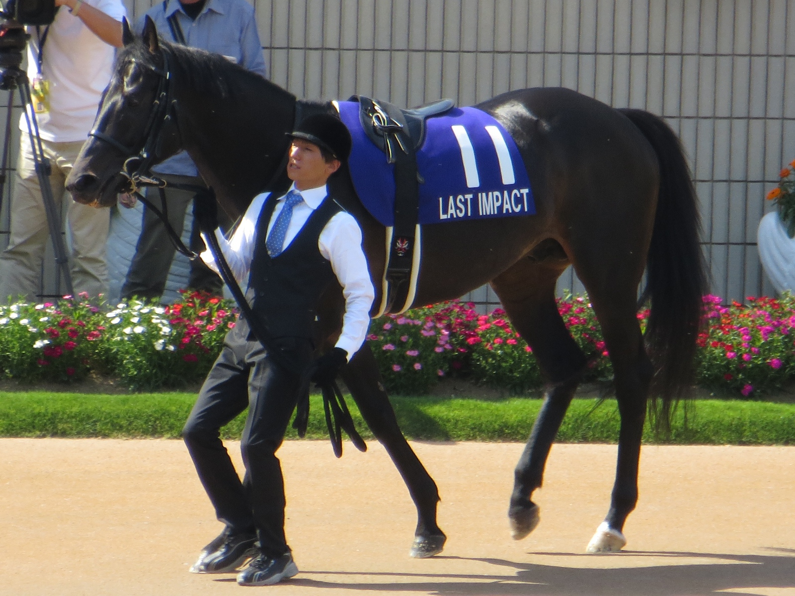 Last Impact (Racehorse of Japan).